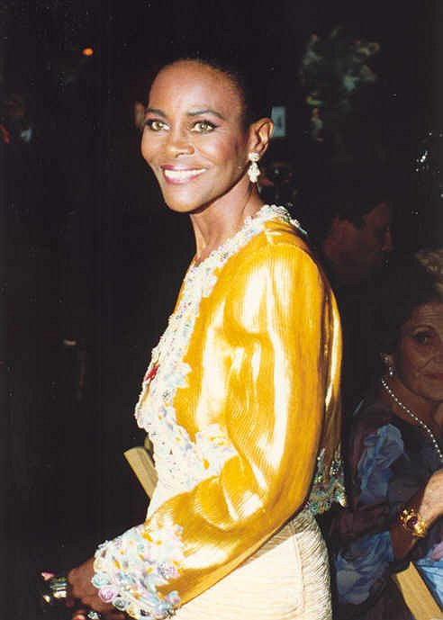 Photo of actress Cicely Tyson at the Emmy Awards.